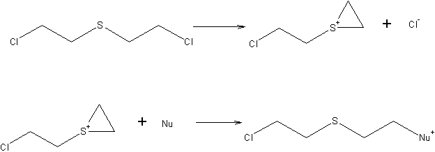 The chemical basis of how mustard gas works.